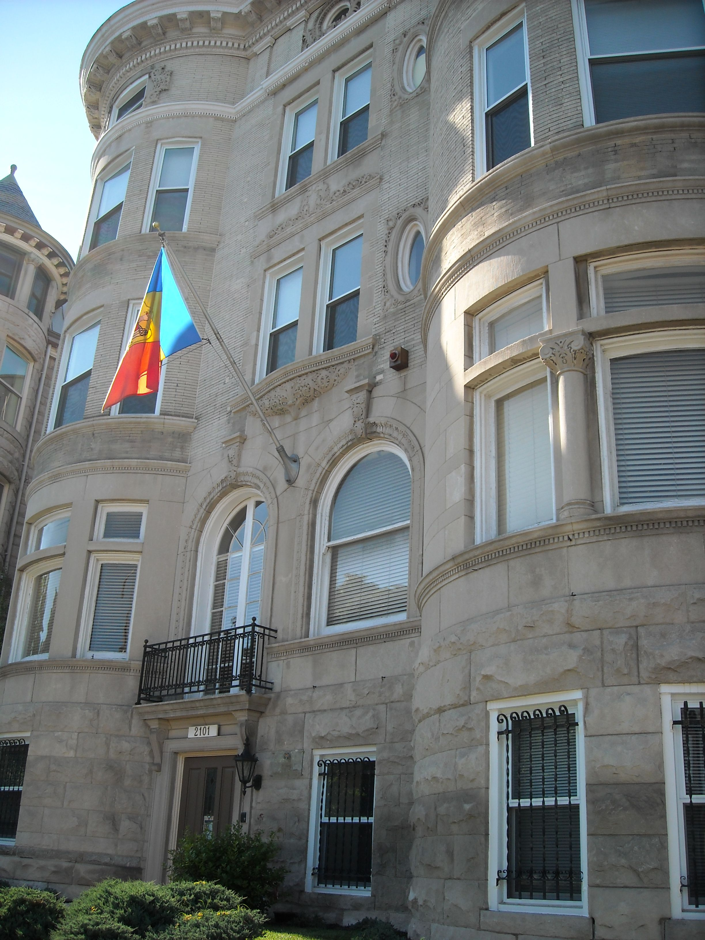 The Embassy of Moldova located at 2101 S Street, NW in the Sheridan-Kalorama neighborhood of Washington, D.C.